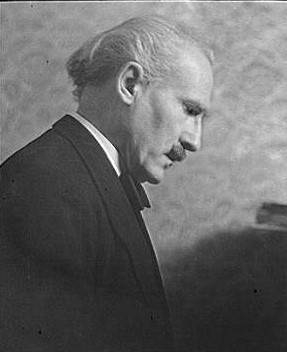 Title Portrait photograph of Arturo Toscanini Contributor Names Genthe, Arnold, 1869-1942, photographer Created / Published between 1934 and 1942; from a negative taken 1934 Mar. 1. Subject Headings - Toscanini, Arturo,--1867-1957. Format Headings Lantern slides. Portrait photographs. Notes - Title devised. - Purchase; Genthe Estate; 1942 or 1943. - ID: LC-G412-8099-019; 1934 Mar. 1 Medium 1 slide : lantern ; 4 x 5 in. or smaller. Call Number/Physical Location LC-G4085- 0417 [P&P]